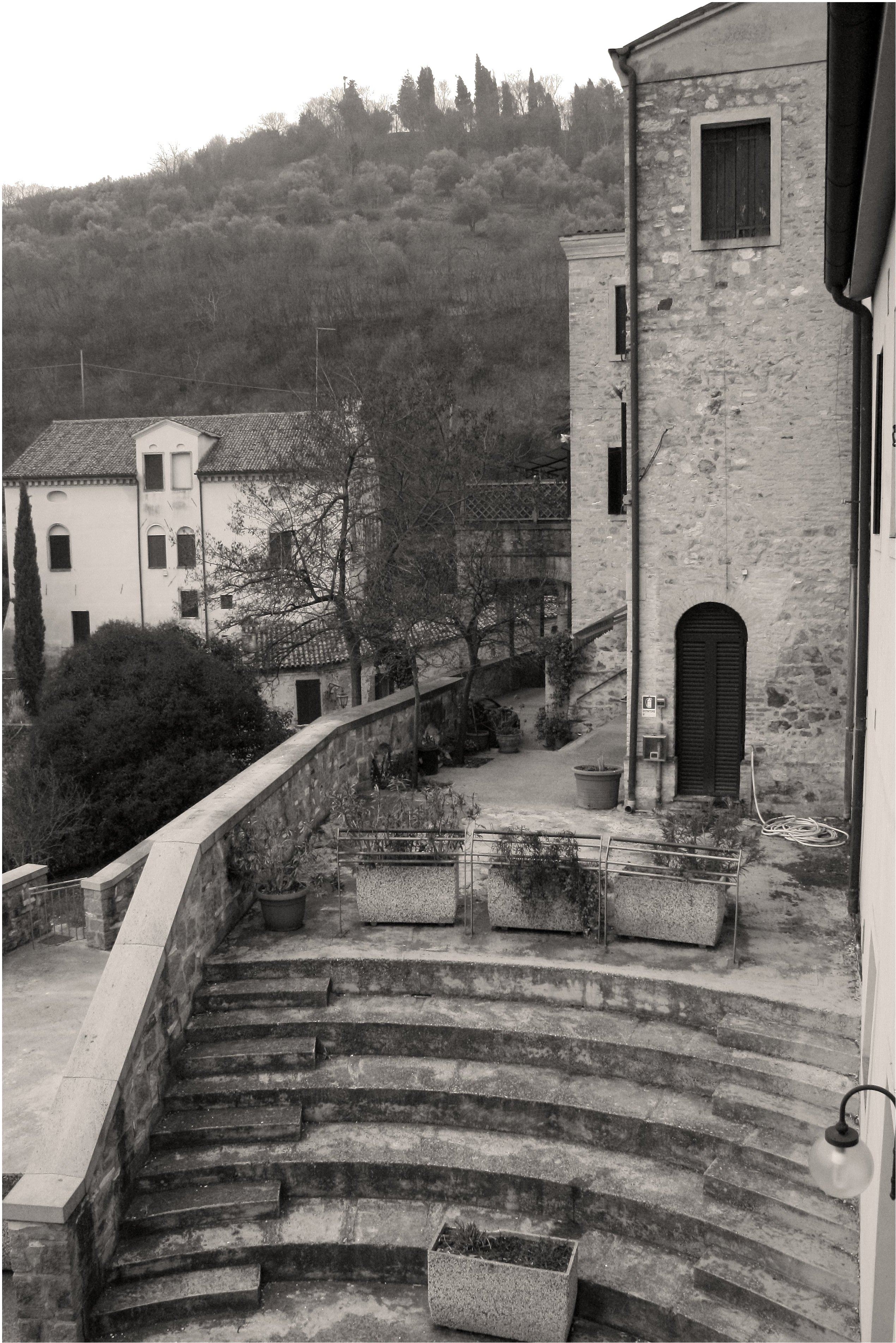 The small staircase leading to the church of Santa Maria Assunta in Arquà Petrarca